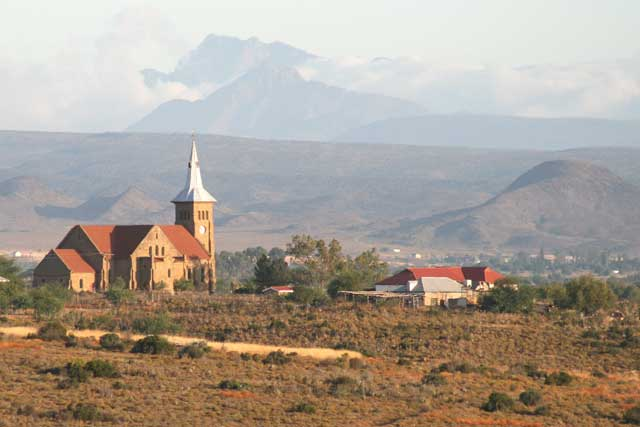 Church building of De Hoop congregation, 10 miles west of Oudtshoorn, Western Cape